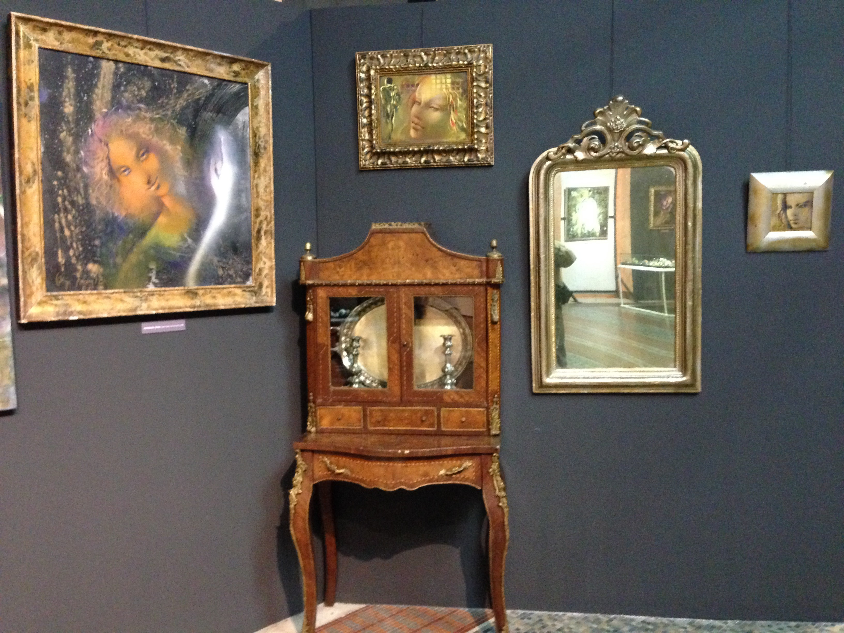 Legacy Olja Ivanjicki, Serbia